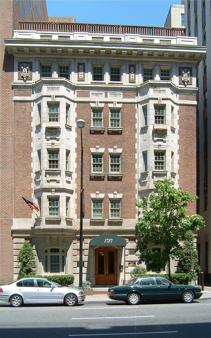 Photo taken in May of 2006